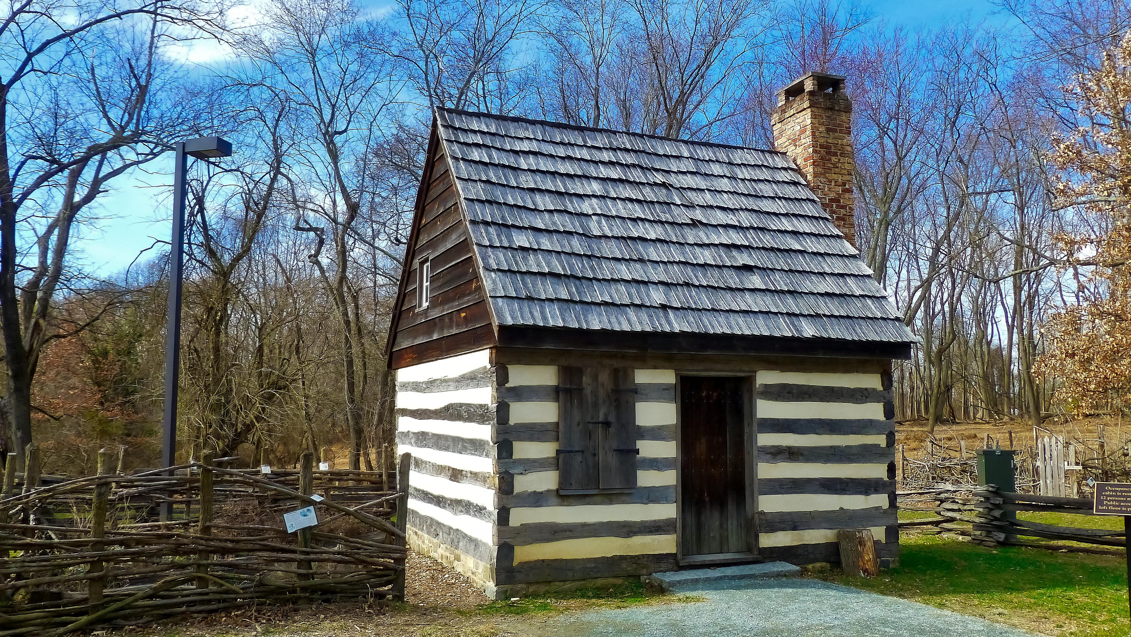 Replica of Benjamin Banneker's log cabin in Benjamin Banneker Historical Park, Feb 18, 2017, 1-47 PM_edit